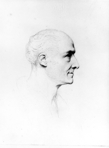 A self protrait by John Samuel Agar, pencil, 20cm by 16 cm, now at the National Portrait Gallery in London